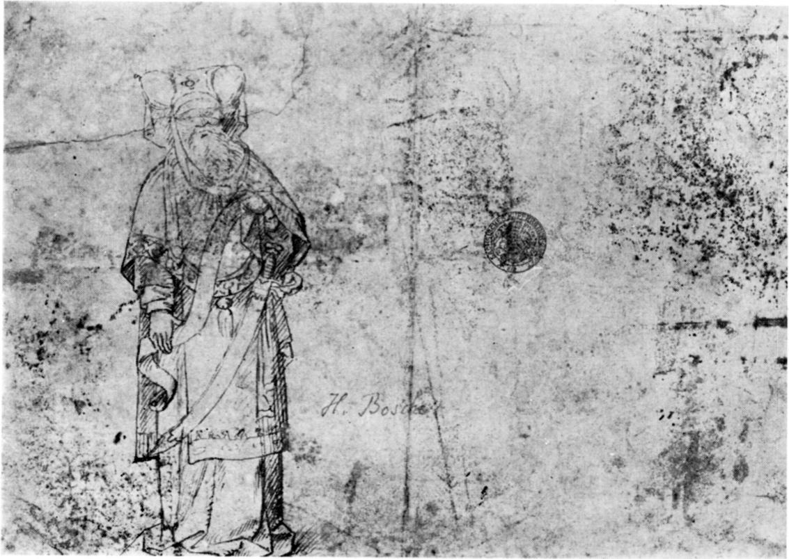 Reverse of a two-sided drawing. For the front, see File:Bosch follower Scene from Hell.jpg.